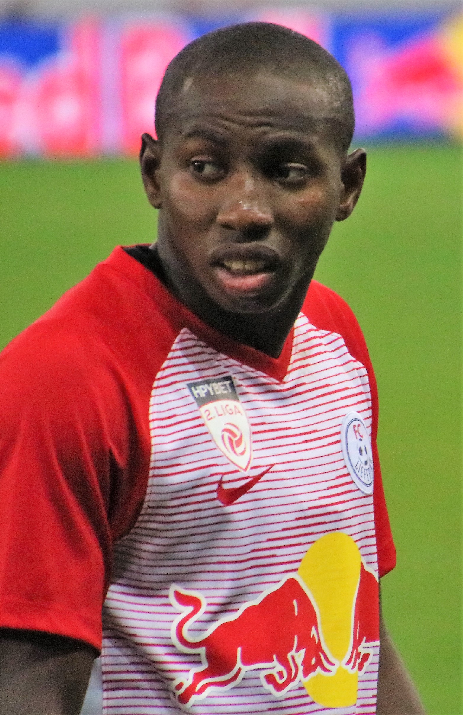 league match Austria 2nd league